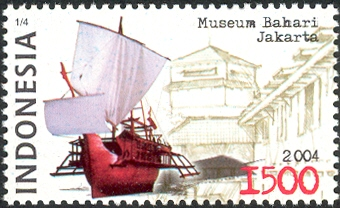 Stamps of Indonesia